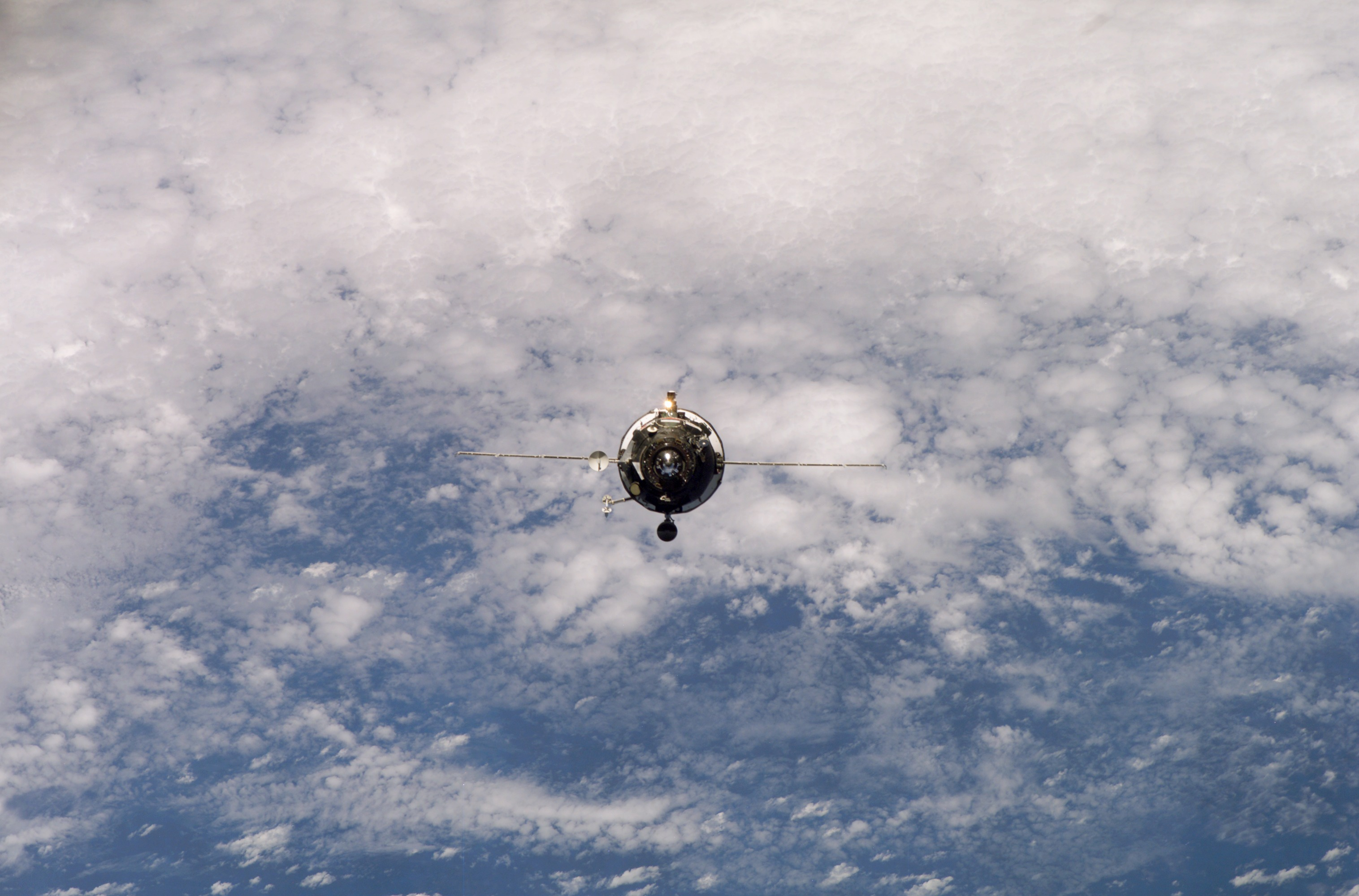 An unpiloted Progress supply vehicle approaches the ISS